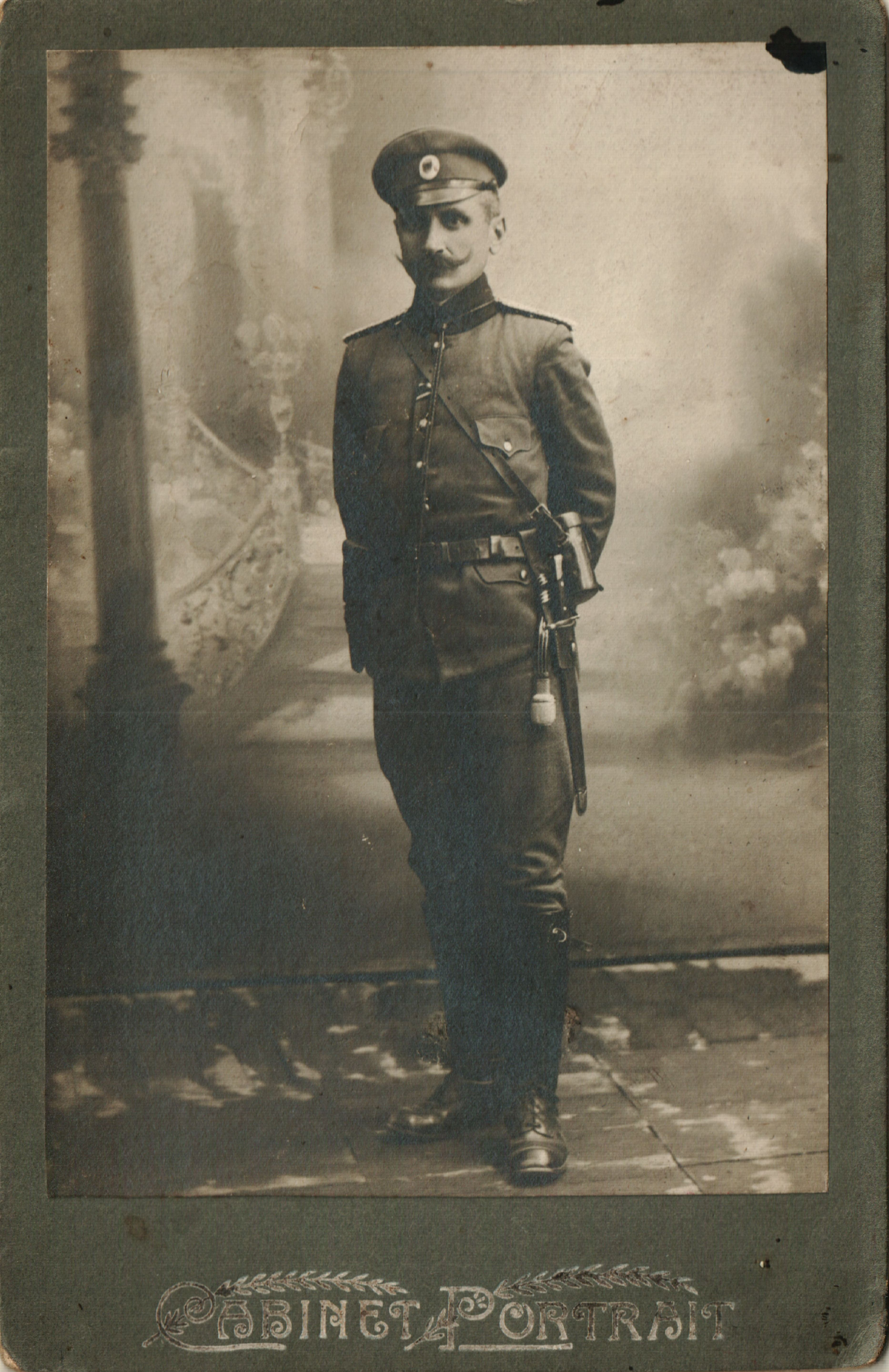 Pandil Shishkov